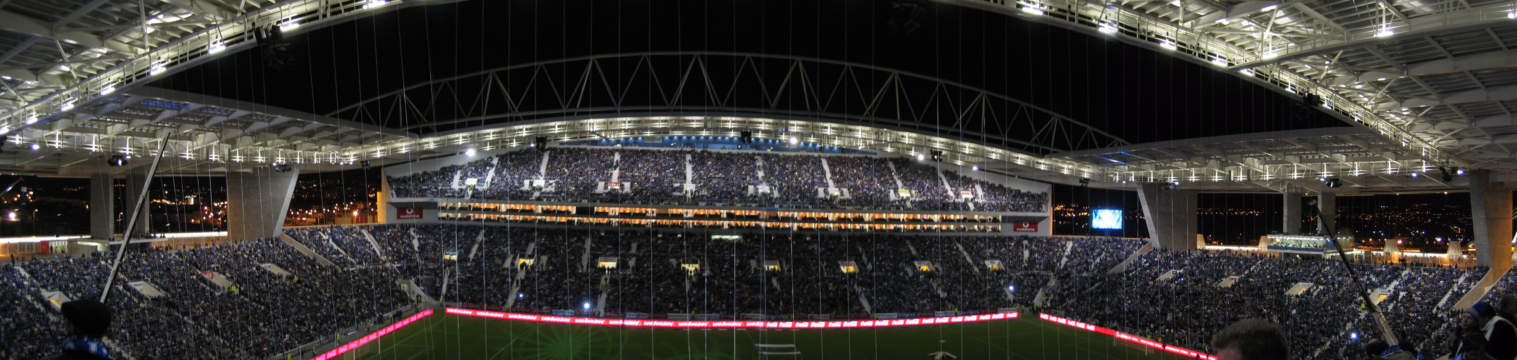 Estadio do Dragao on opening night (note: the cranes and suspended ropes were used by acrobats that night). Author: Joao Castro.